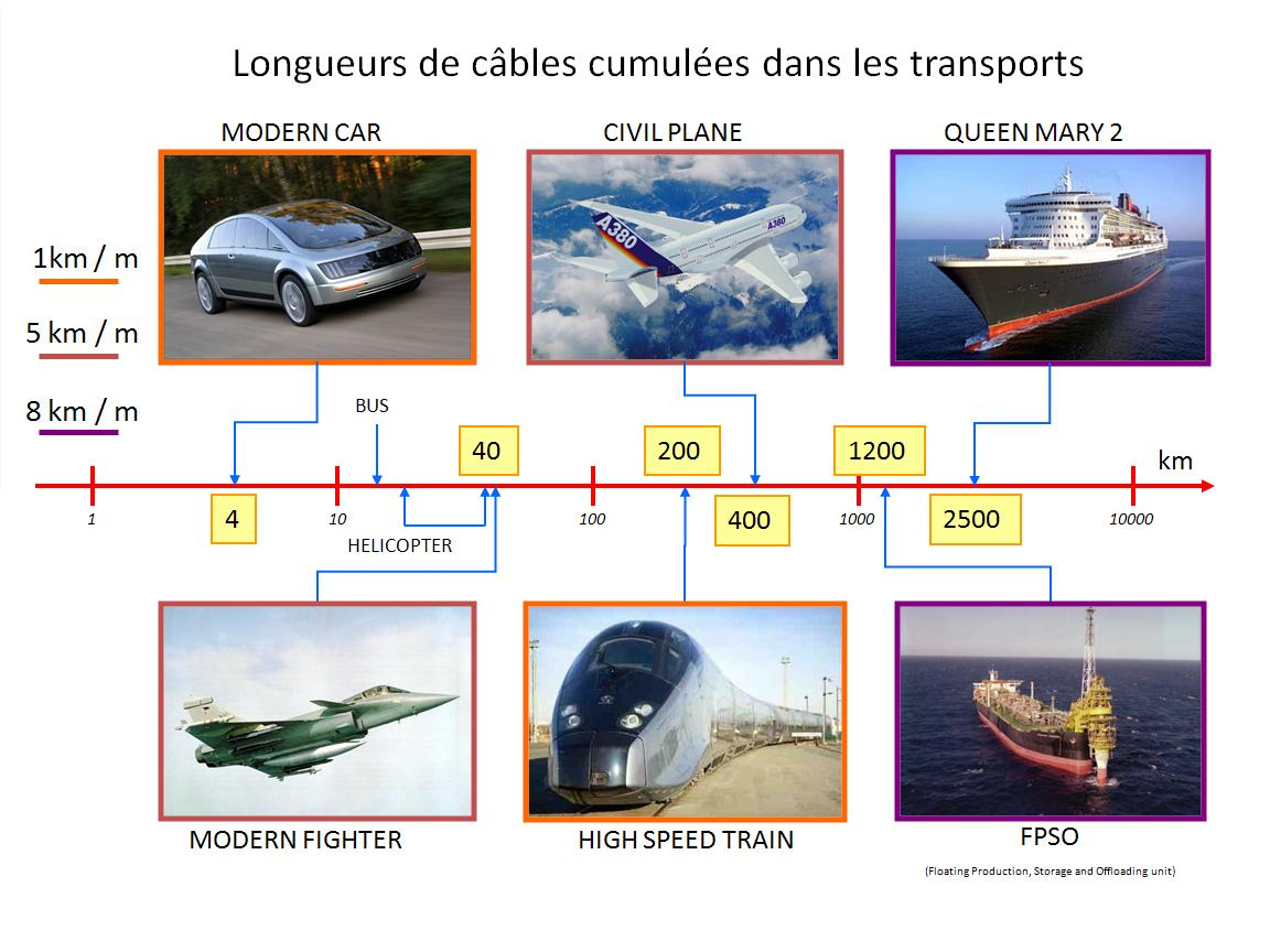 cumulated cable lengths in transport systems